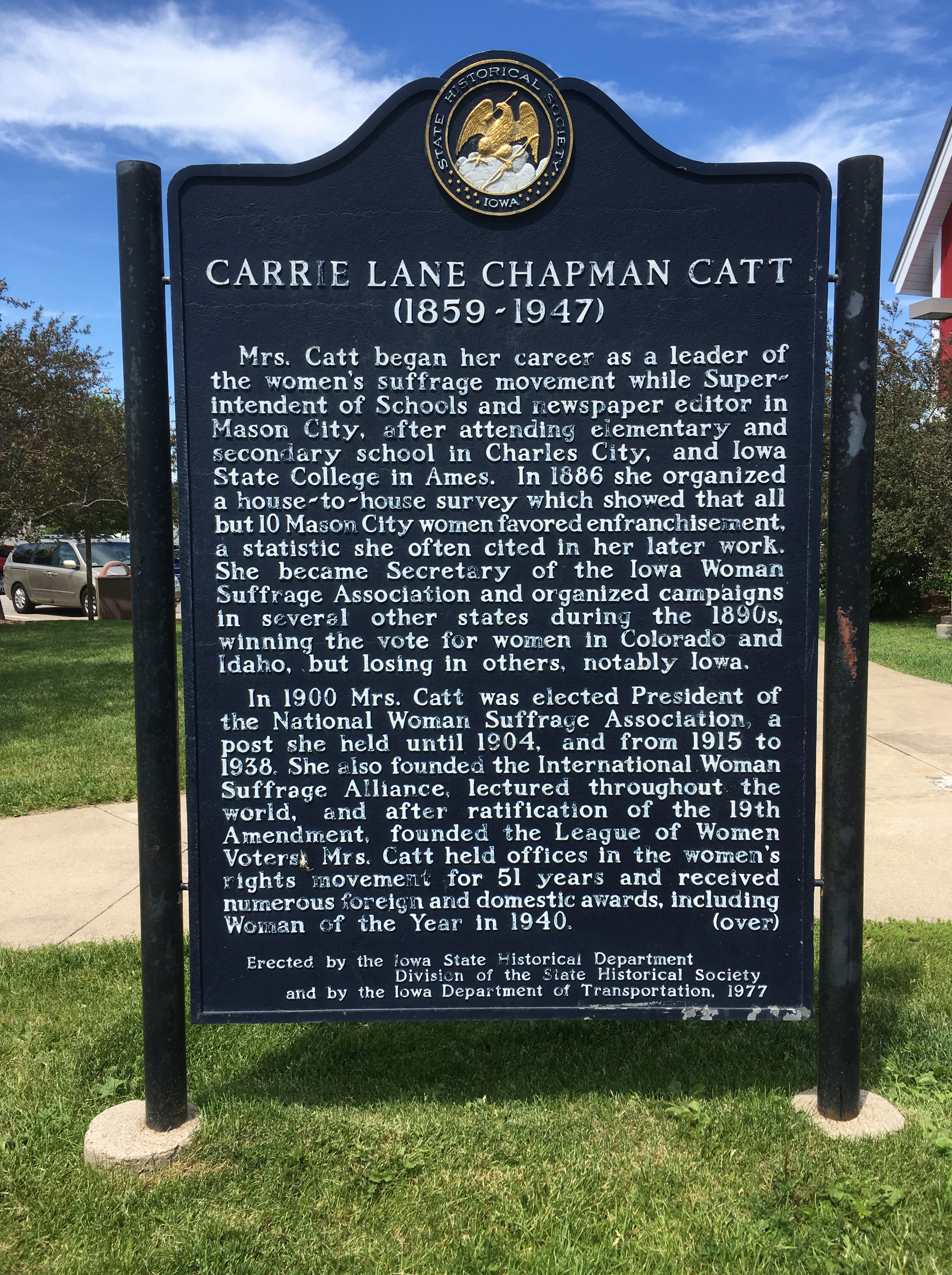 Historical marker for Carrie Lane Chapman Catt. It is located on the south side of the building at the Iowa welcome center on Interstate 35.